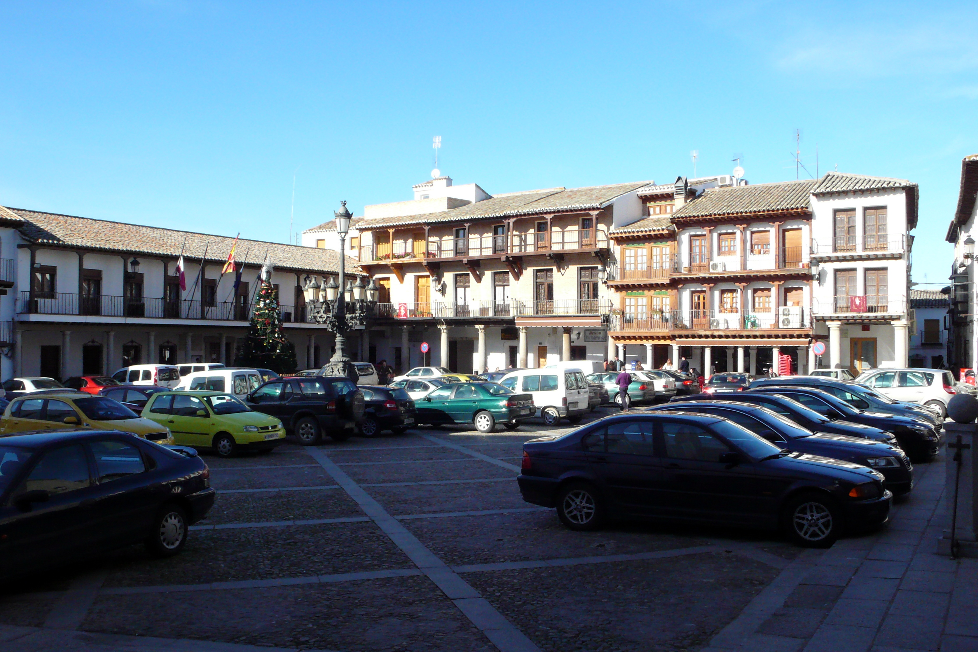 Image of the noth and west side of the Plaza Mayor - La Puebla de Montalbán